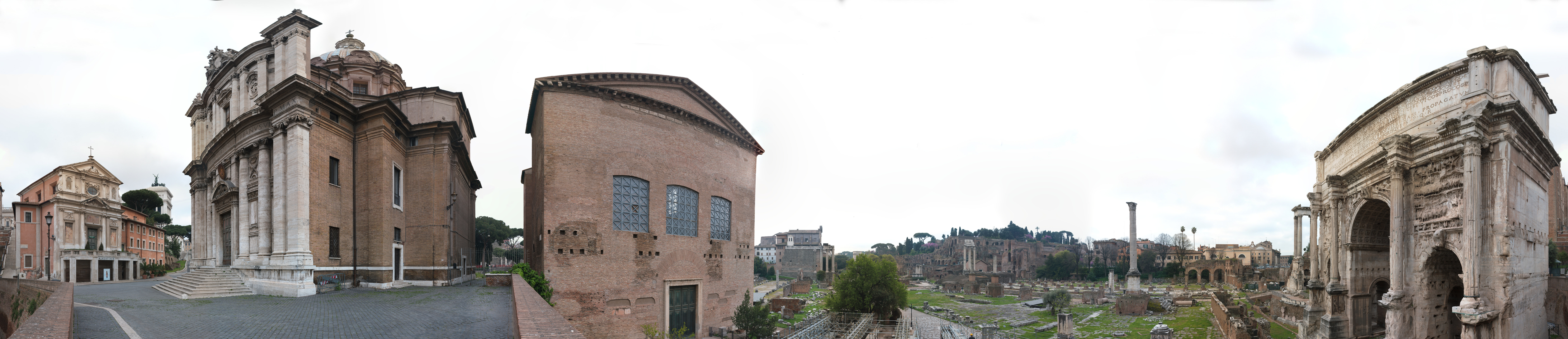 360° panoramic of Arch of Septimius Severus, Forum; Romanum, Mamertinum.